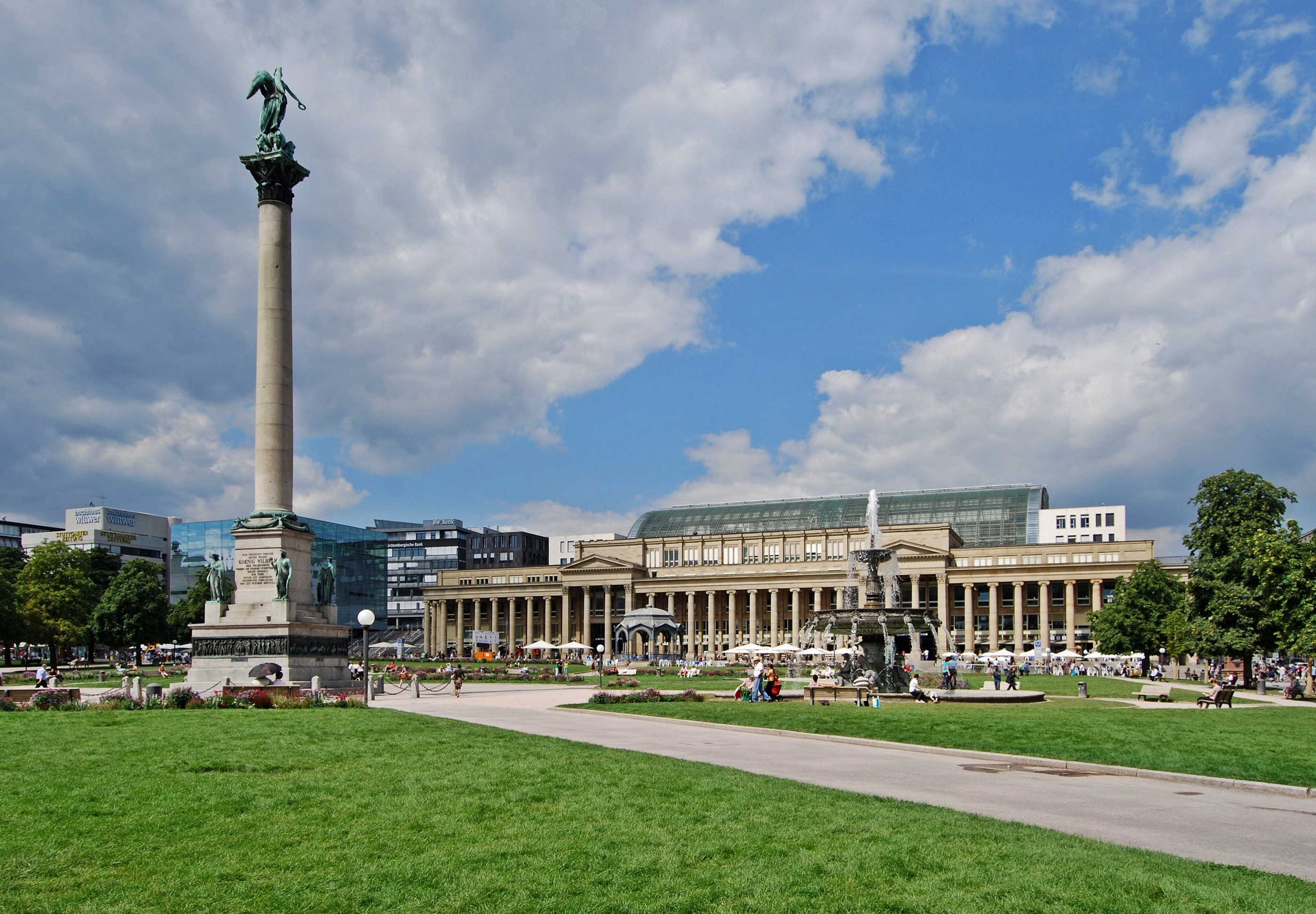 The Schloßplatz in Stuttgart.